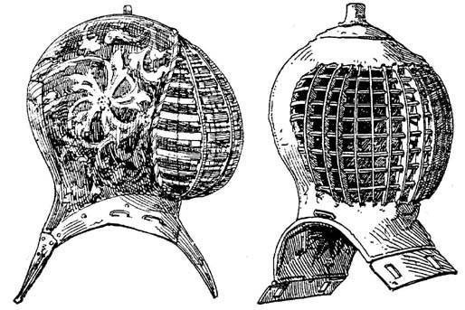 Helmet for the "Kolbenturnier"